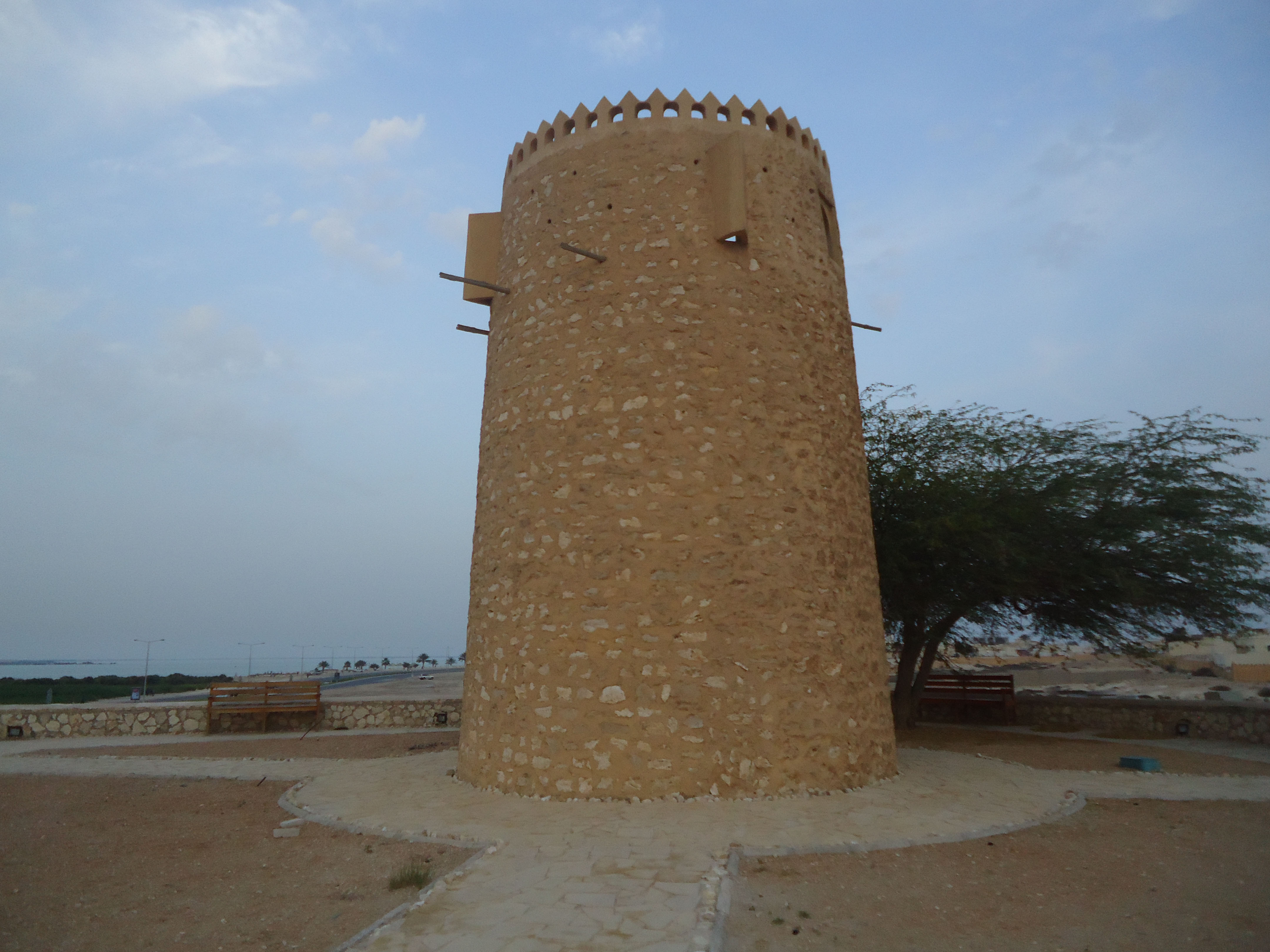 Al Khor Archaeological Tower, a close view